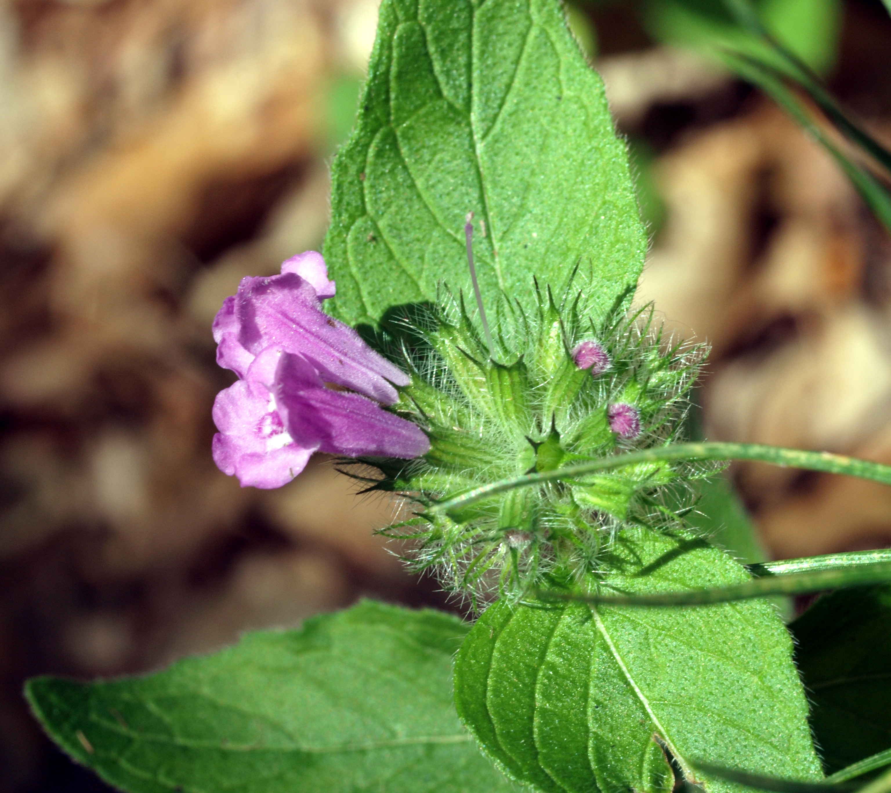 Wood Basil (Clinopodium vulgare), Graz, Austria